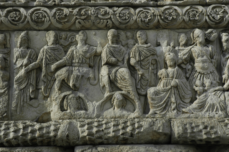 J. Matthew Harrington, personal digital image, Licensing